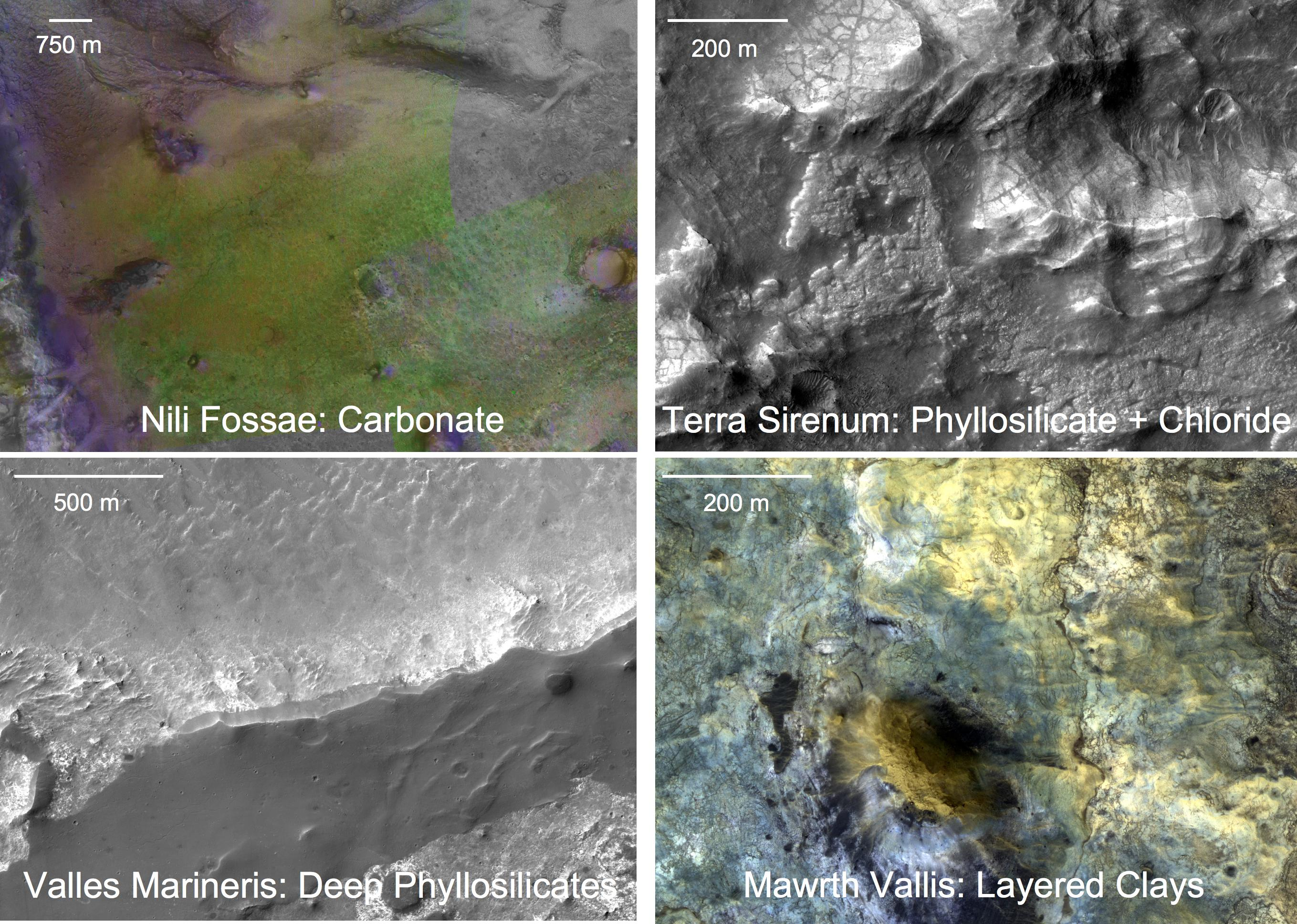 Examples of Phyllosilicates in Noachian Outcrops